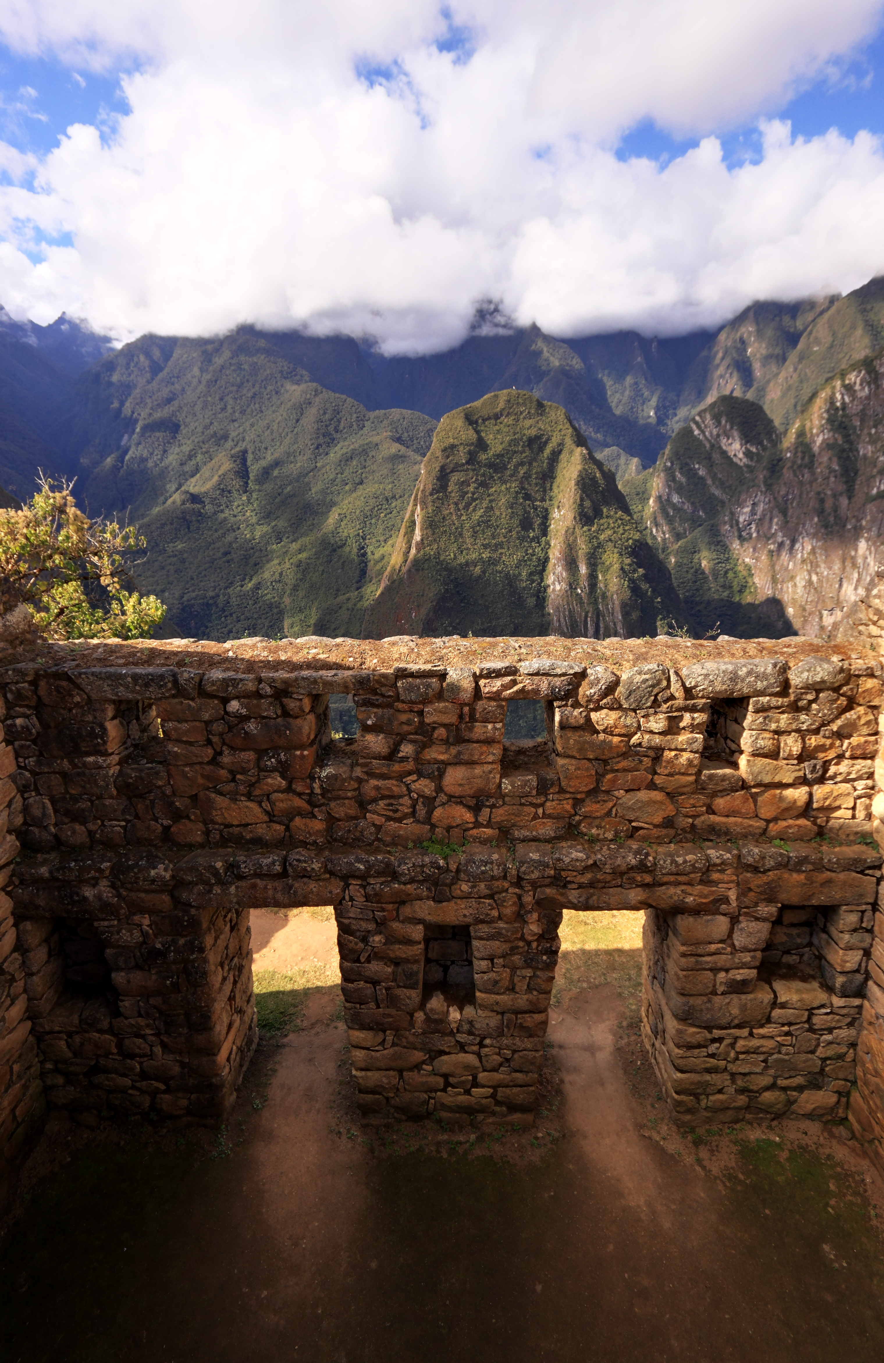 Please, have this description accessible to all by translating it in different languages.